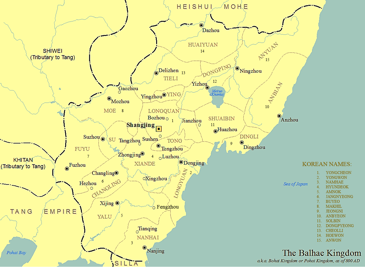 Map of Balhae Kingdom (Bohai/Pohai) as of 800 AD